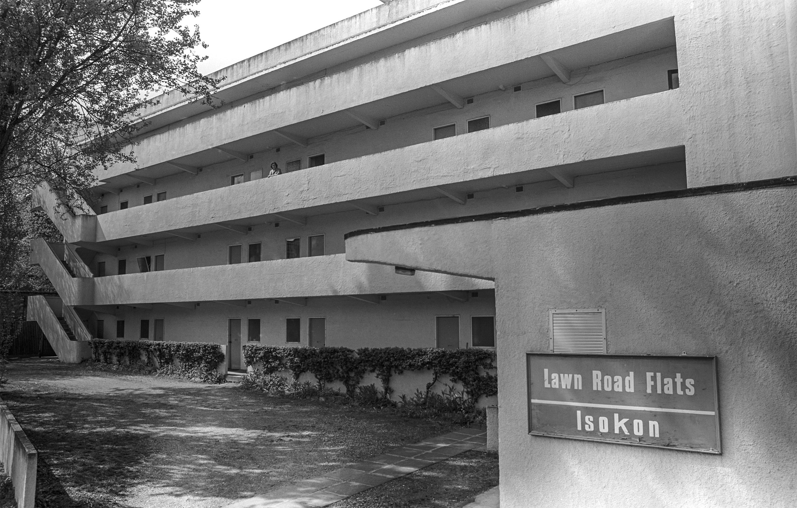 Isokon Flats, Hampstead by Well Coates 1934 (Photographed circa 1978)